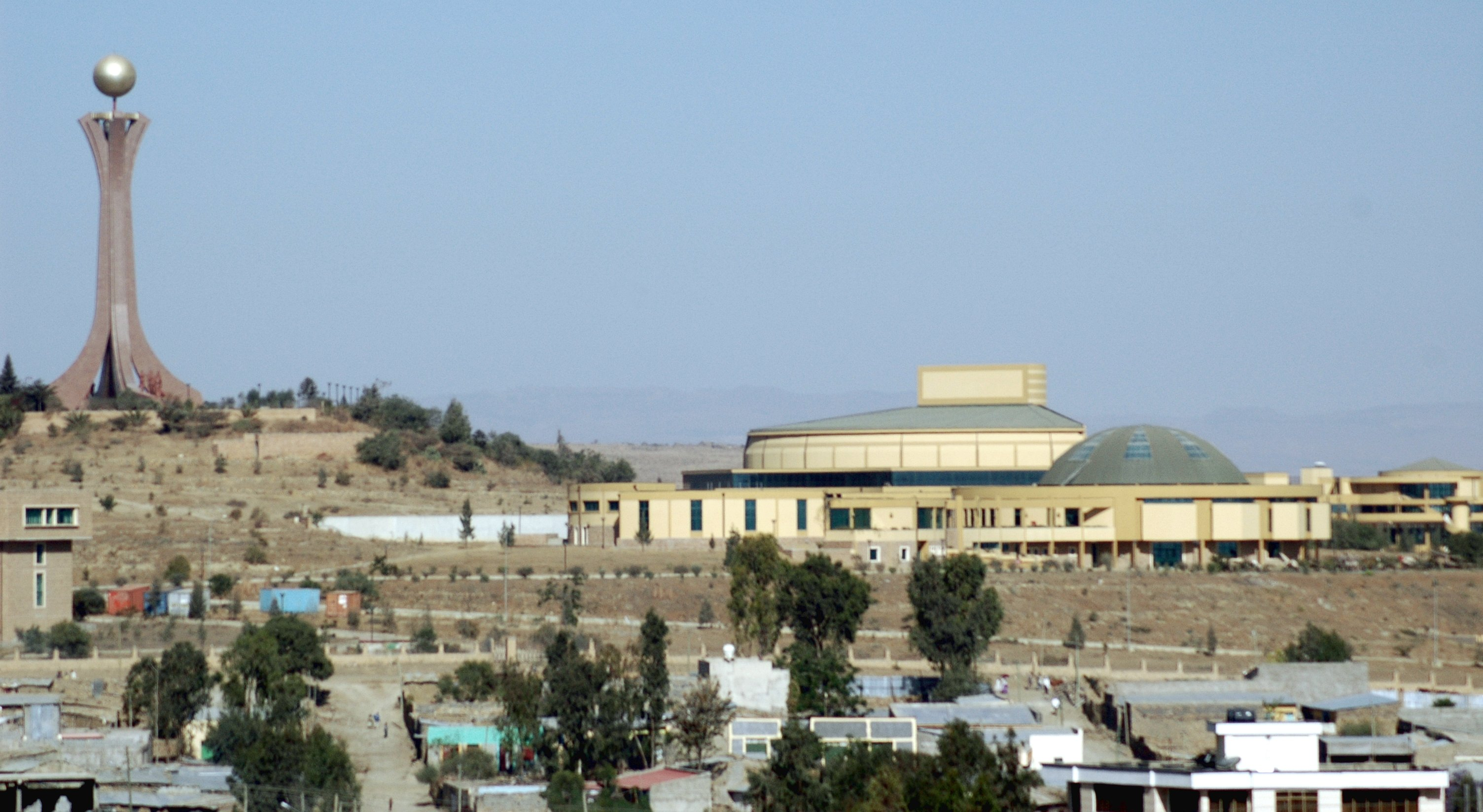 A monument in Mek'ele, Ethiopia, commemorating the war against the Derg.